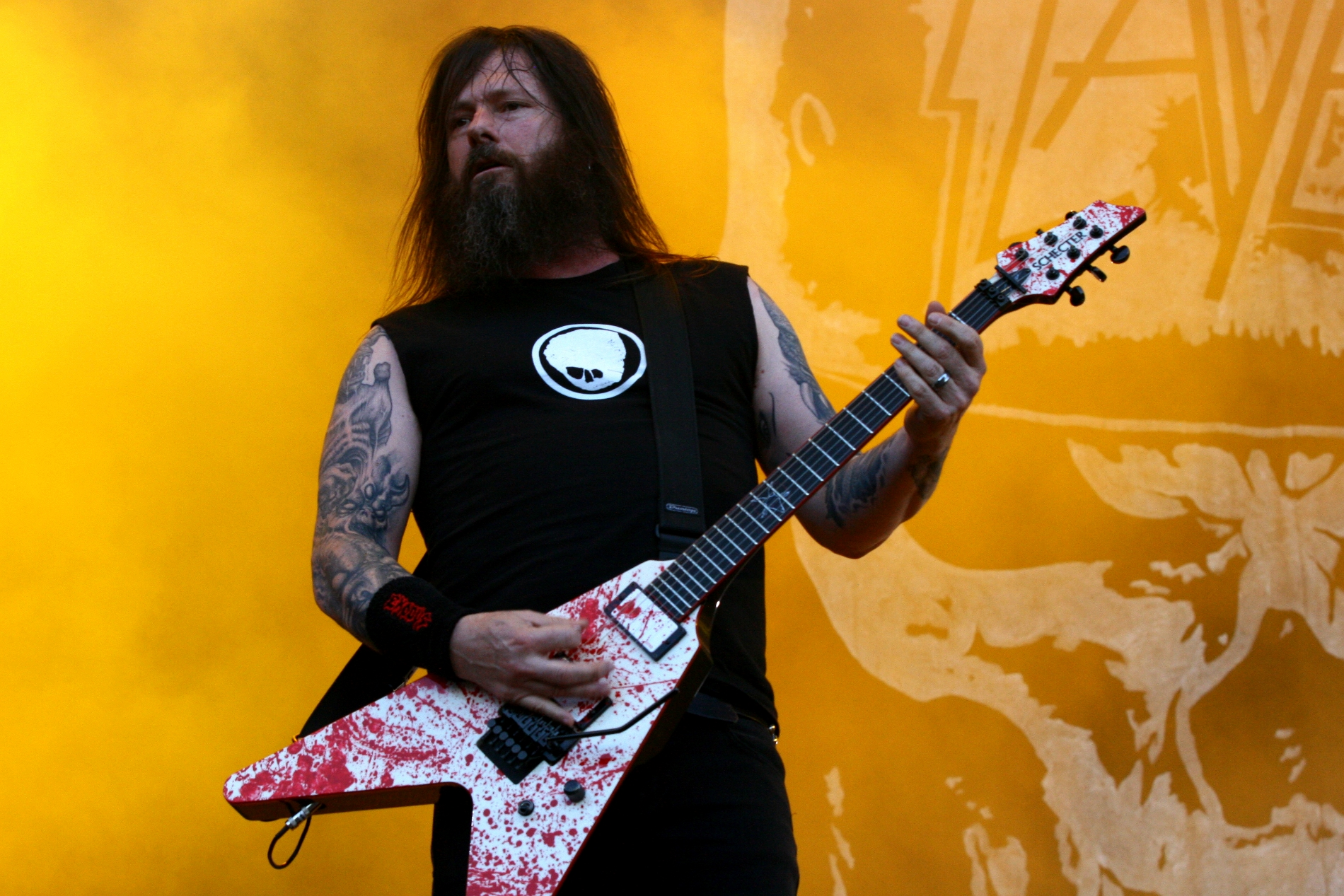 Gary Holt, tour guitarist of Slayer, Rock im Park Festival 2014. Festivalsommer This photo was created with the support of donations to Wikimedia Deutschland in the context of the CPB project "Festival Summer".